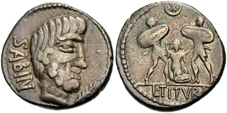 Roman Republic: denarius of L. Titurius L.f. Sabinus, 89 B.C. Obverse: bare head of king Tatius right, "SABIN" behind, palm before. Reverse: Tarpeia between two soldiers who are about to cast their shields upon her, star and crescent above. "L . TITVRI" in exergue. Sear# 264.